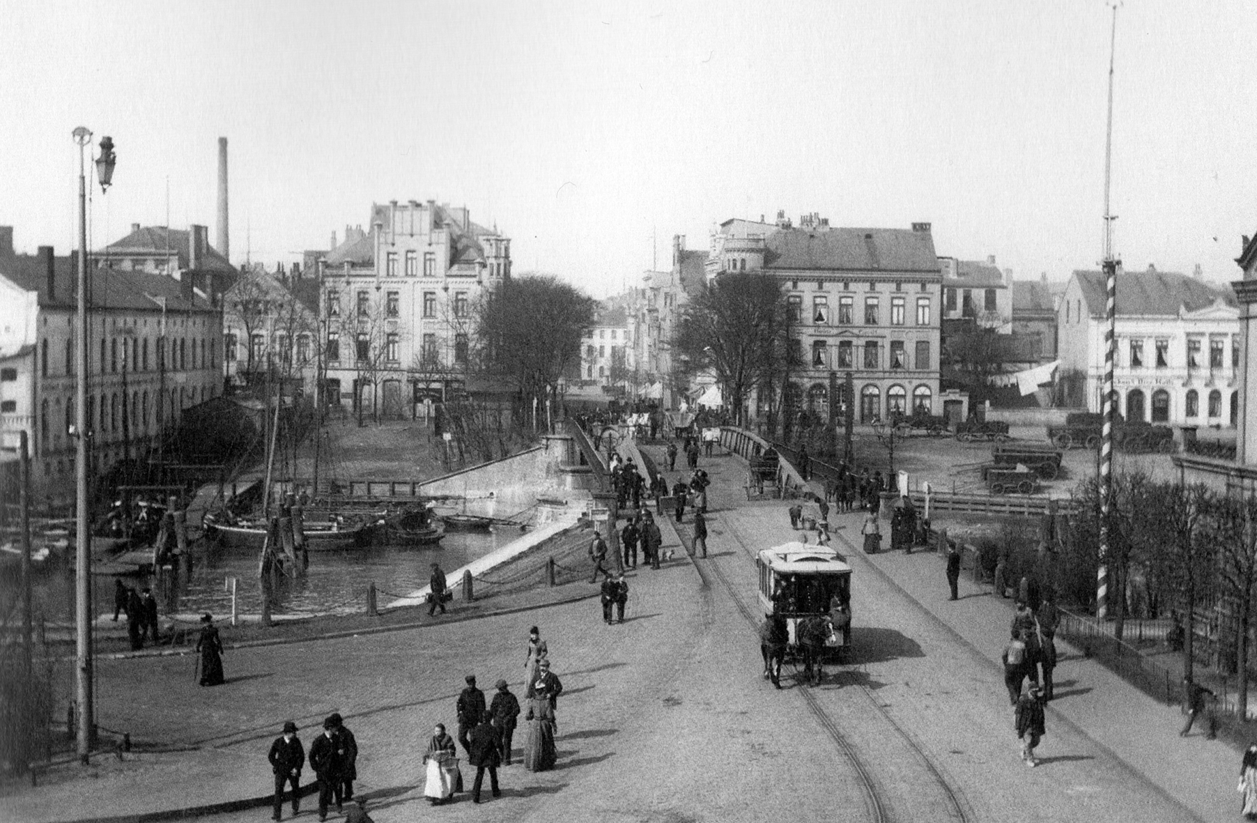 Alte Geestebrücke ("Old Geeste Bridge") in Bremerhaven, Germany; built 1856/1857; photo 1895